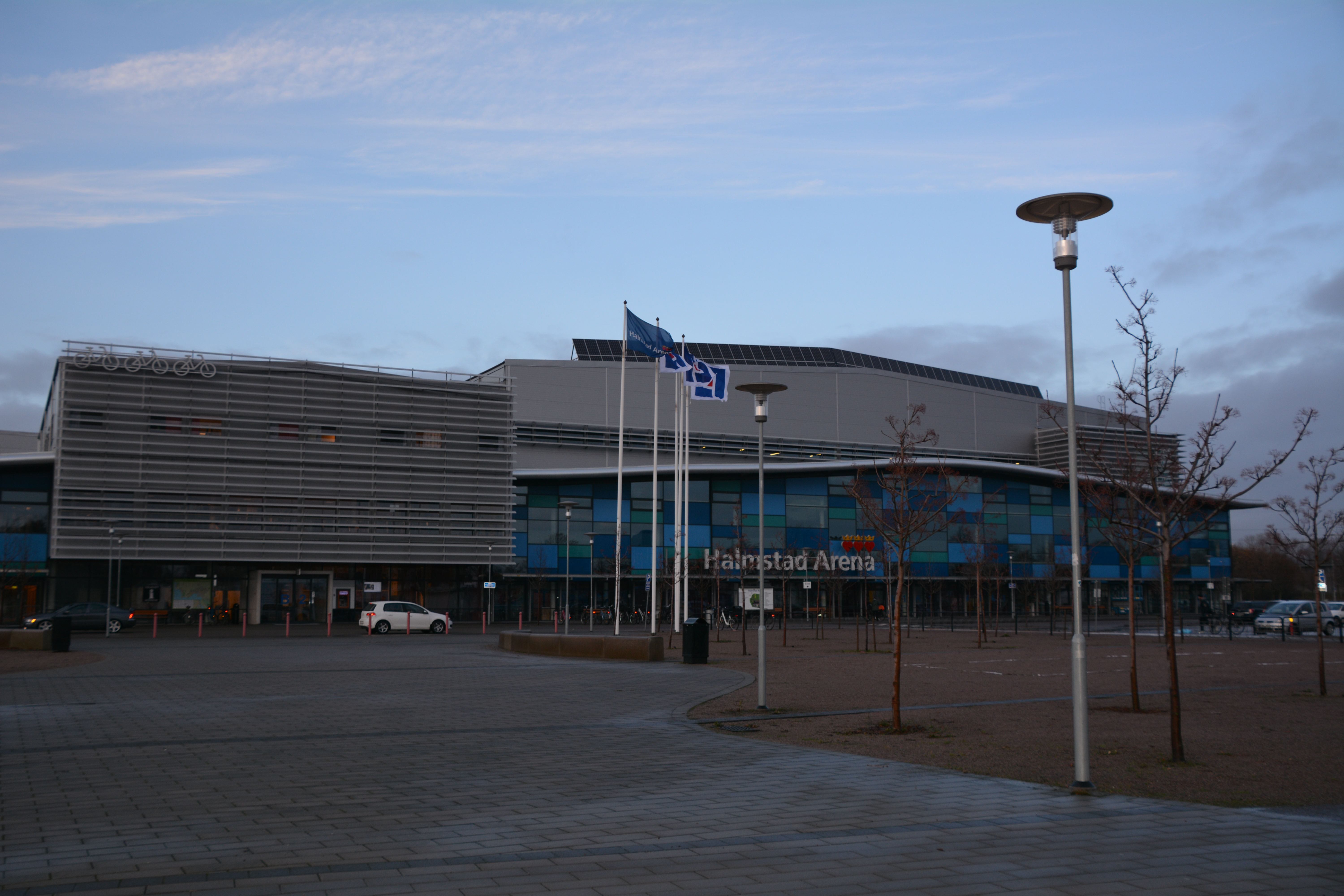 Halmstad Arena